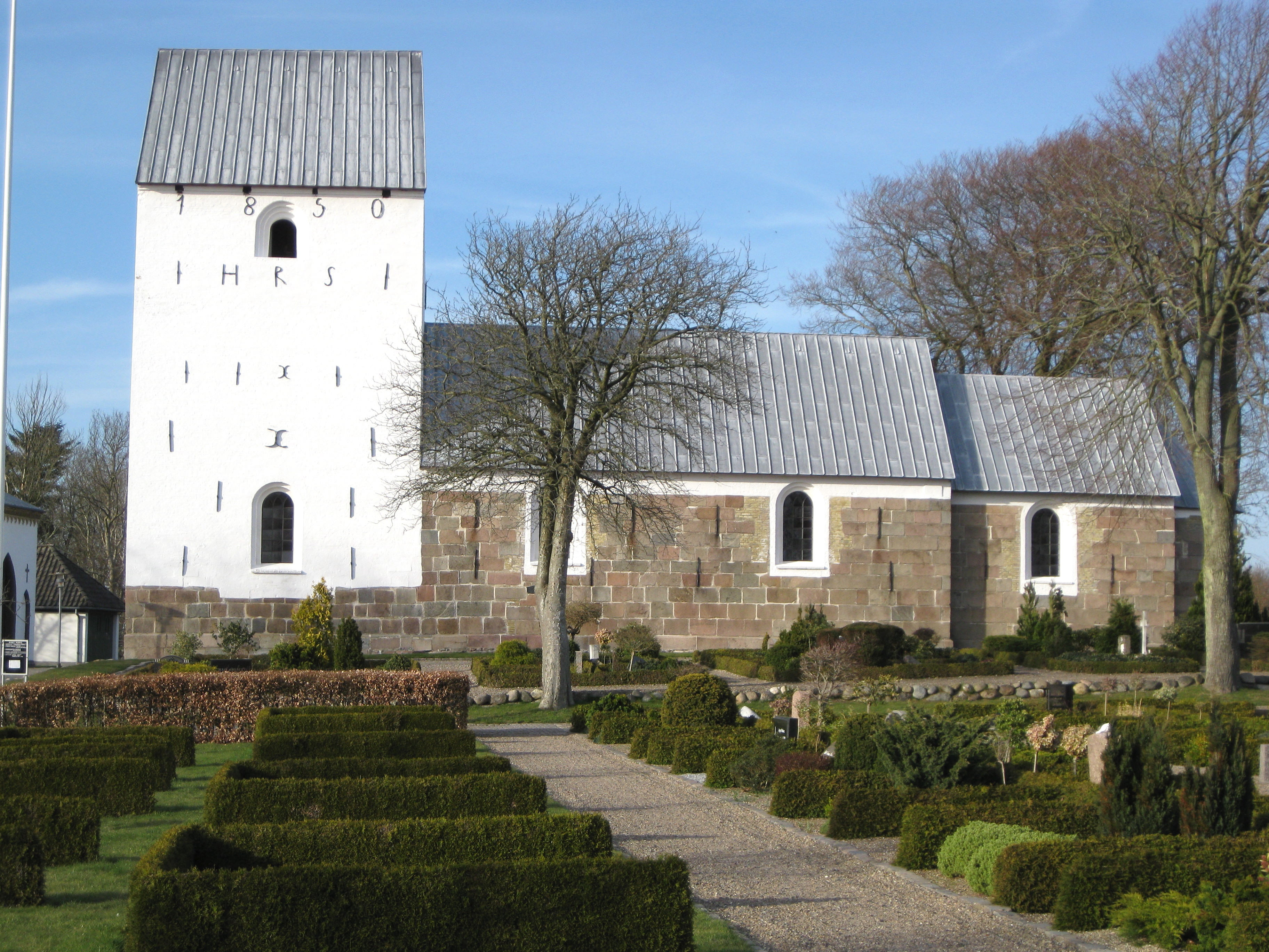 The church "Aaby Kirke" in the small town "Aabybro". The town is located in North Jutland, Denmark.